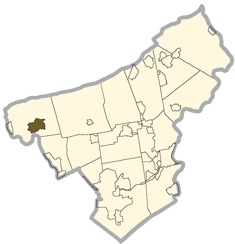 Cherryville shaded on the Northampton county map.